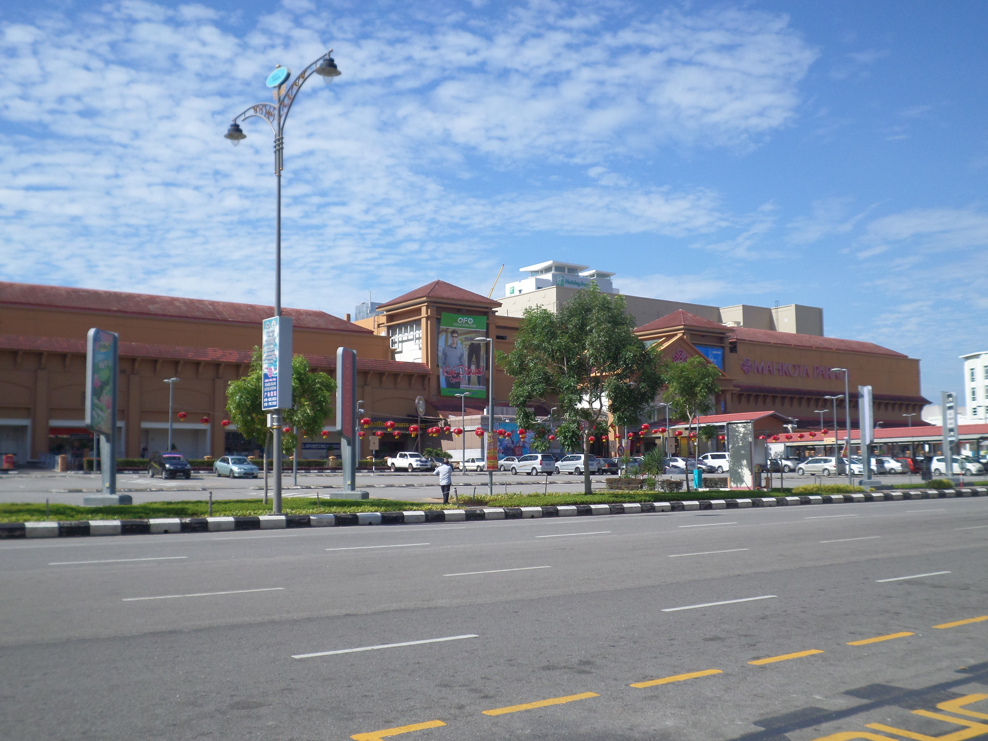 Mahkota Parade, Melaka City, Central Melaka, Melaka, MalaysiaBahasa Melayu: Mahkota Parade, Bandaraya Melaka, Melaka Tengah, Melaka, Malaysia